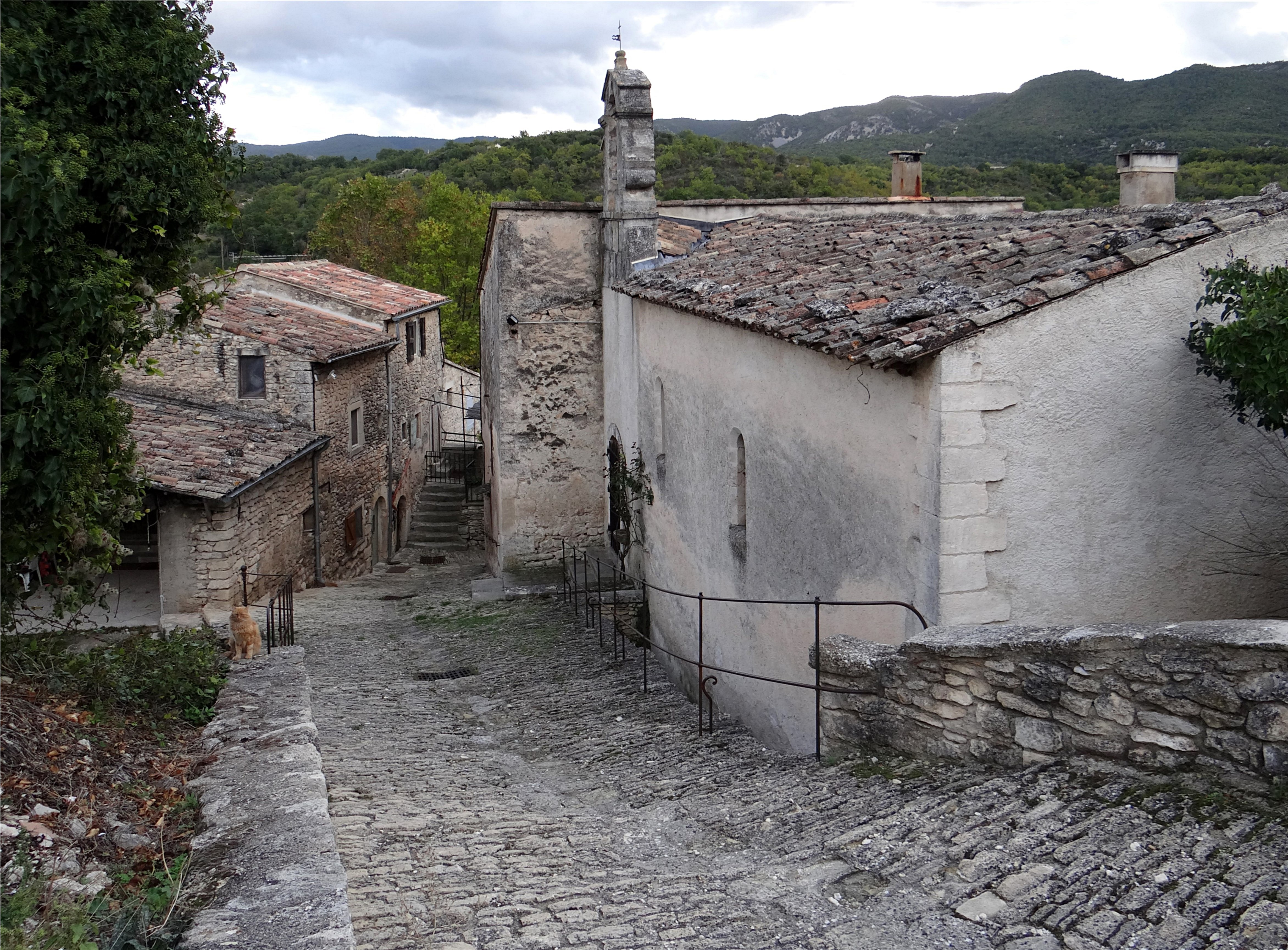 The church Buoux, Vaucluse, France. View of the path of the Oratory.